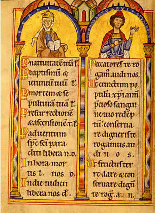 Hermann I, Landgrave of Thuringia